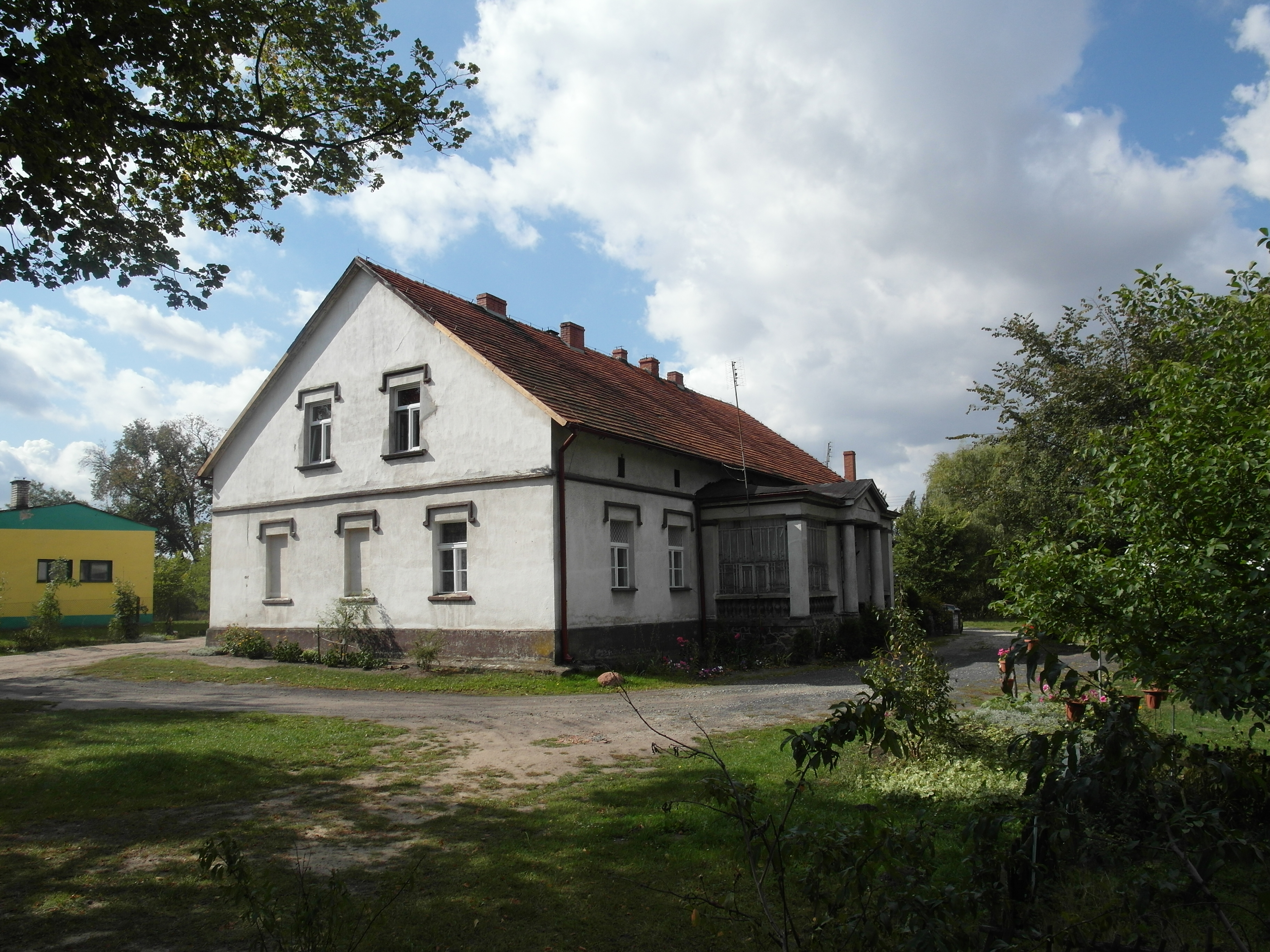 Court in Murzynowo Kościelne